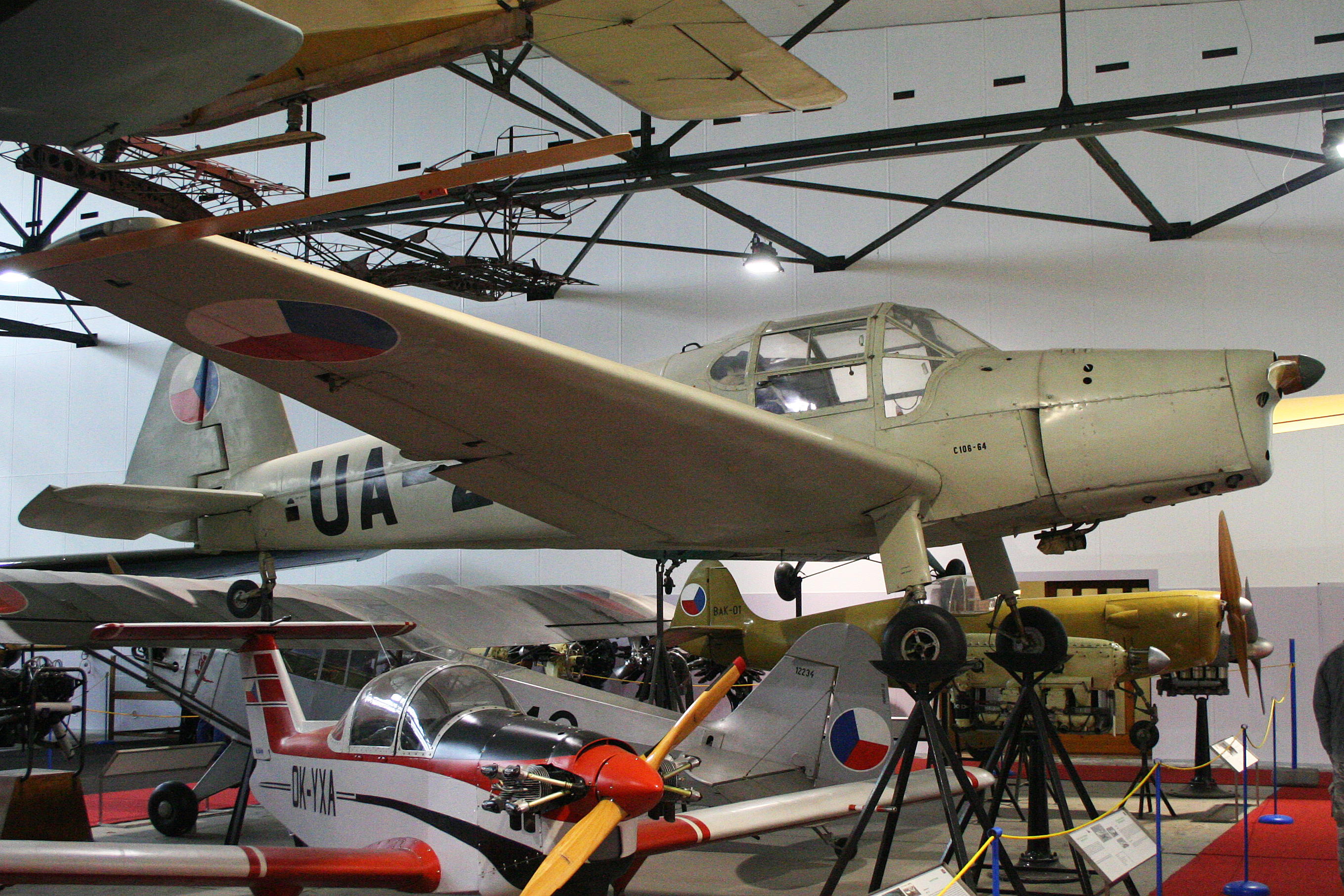 The Zlin 381 was a Czech built Bucker Bestmann. 'C-106' was the military designation. msn 64. On display in the Post War hangar, Kbely Museum, Czech Republic. 07-10-2012